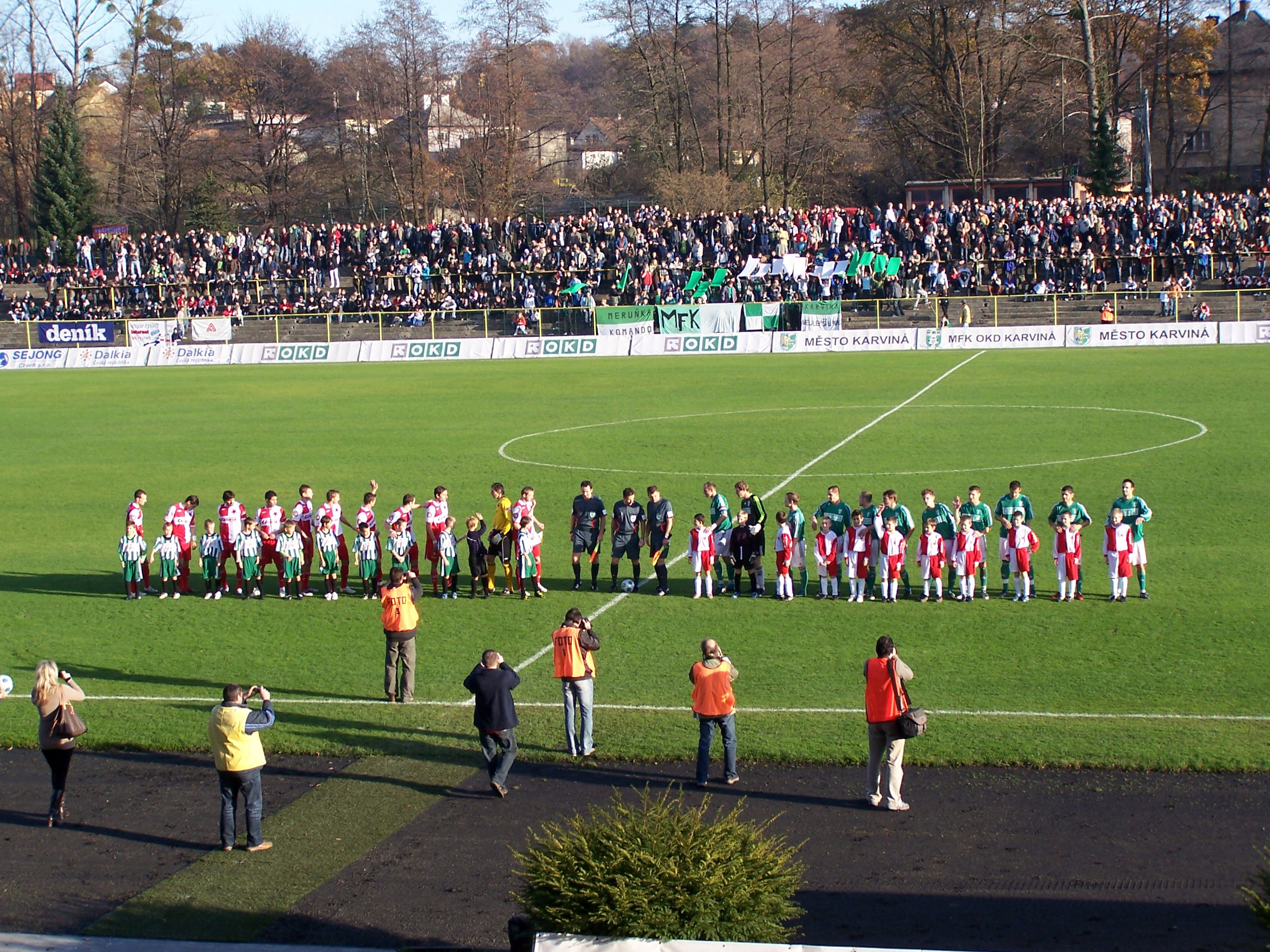 Players before the MFK Karviná - SK Slavia Praha ČMFS Cup match in Karviná